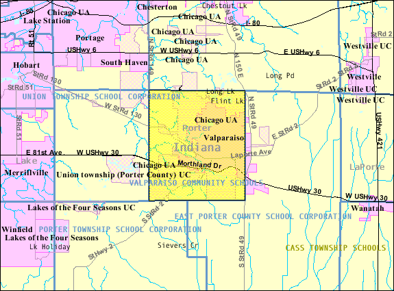 Center Township; i.e., Valparaiso Public Schools overlaid on Valparaiso